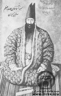 Mirza Aqa Khan-e Nuri